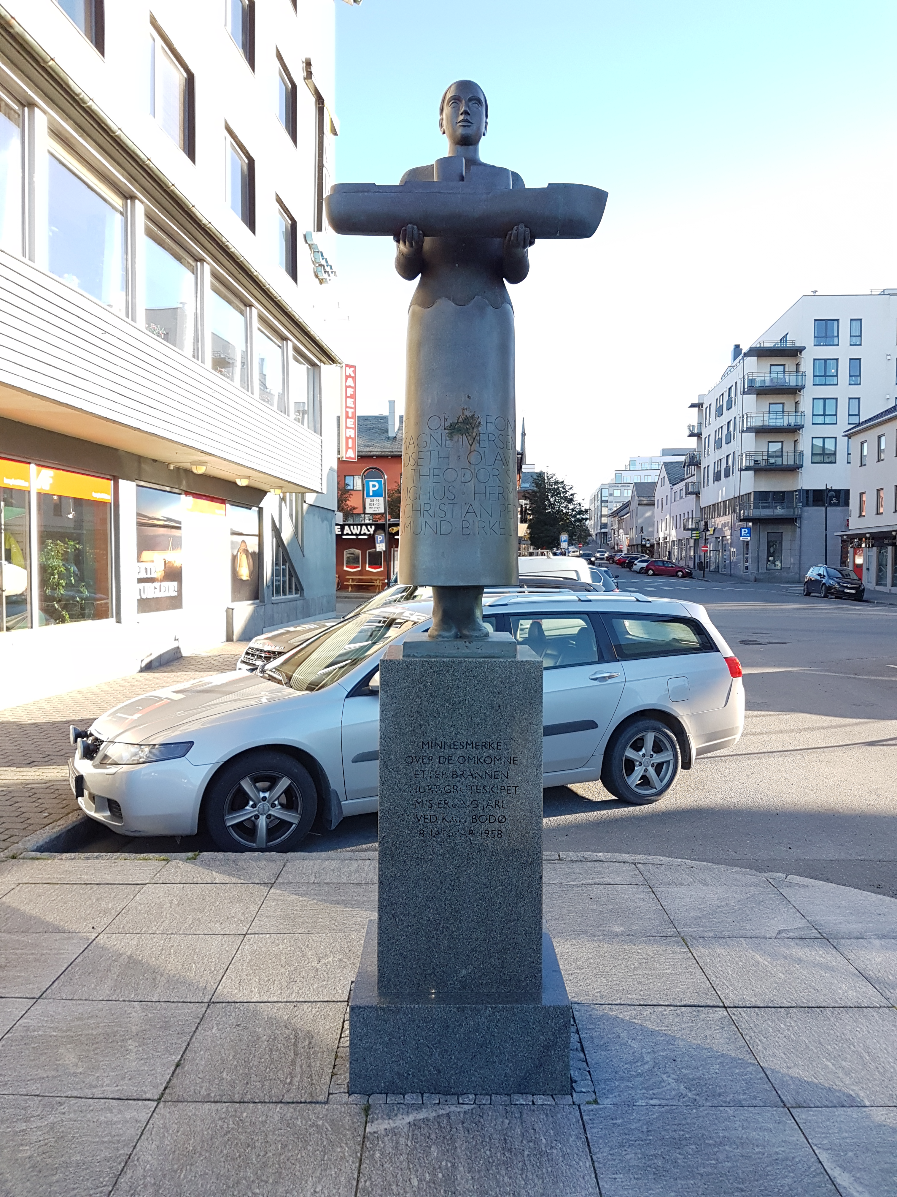 Bronze memorial of the 1958 incident on board of MS Erling Jarl (total height: 2,3 meters) made by Istvan Lisztes Inscription: Memorial to those who perished by fire on the Hurtigruten ship MS Erling Jarl on the quayside in Bodø 8 January 1958